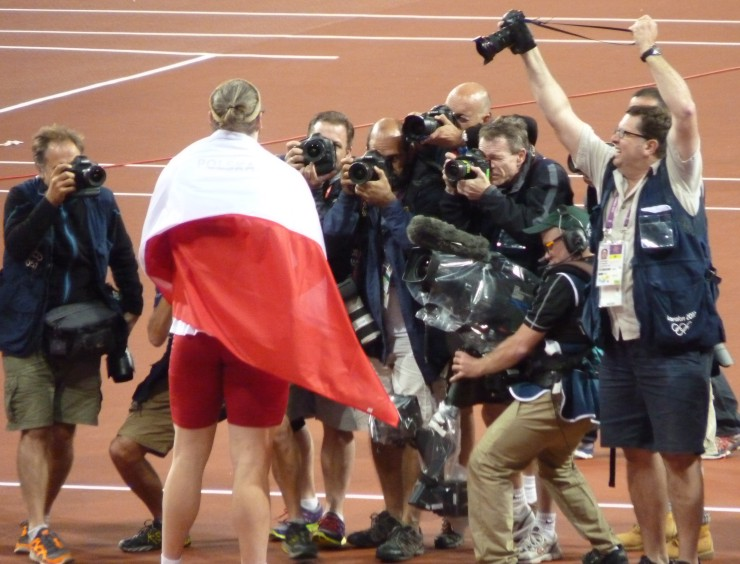 Tomasz Majewski (Poland), winner of the shot put gold medal, Olympic Stadium, Friday 3 August, 2012 London Summer Olympics.